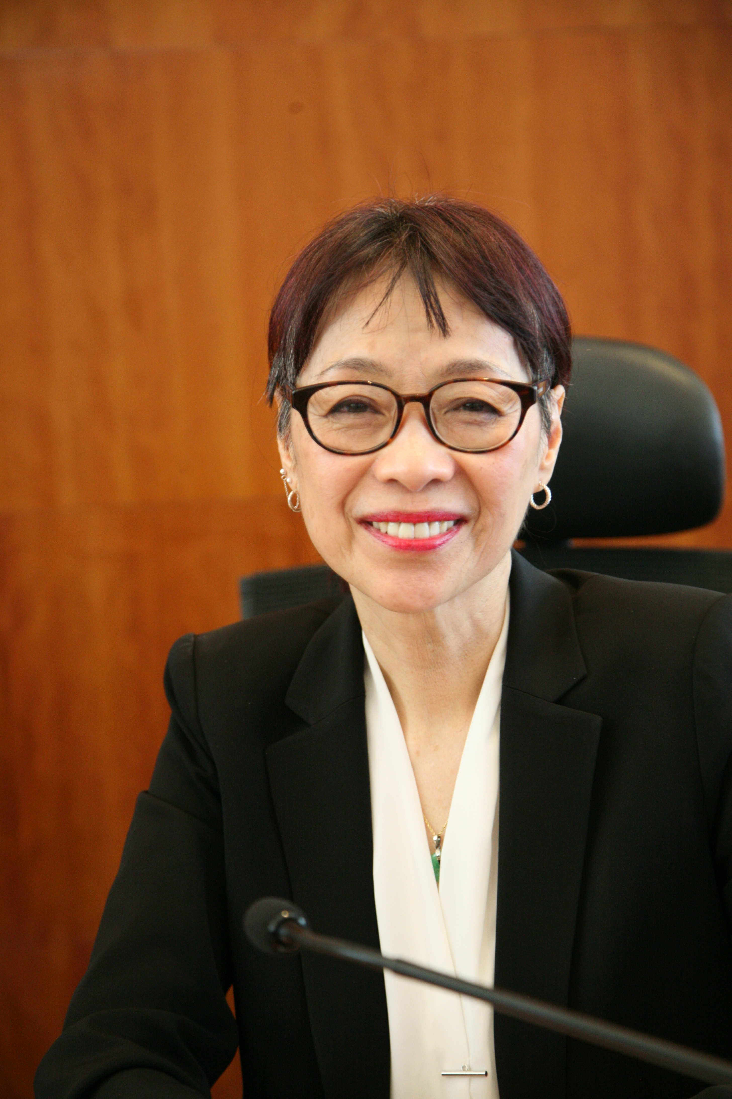 Sharon Hom in the University of Hong Kong.